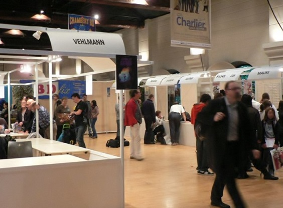 Sight of the dedication stands set for the Festival de la bande-dessinée de Chambéry (comics exhibition) organised by Chambéry BD each year in Chambéry, Savoie, France (year 2011).